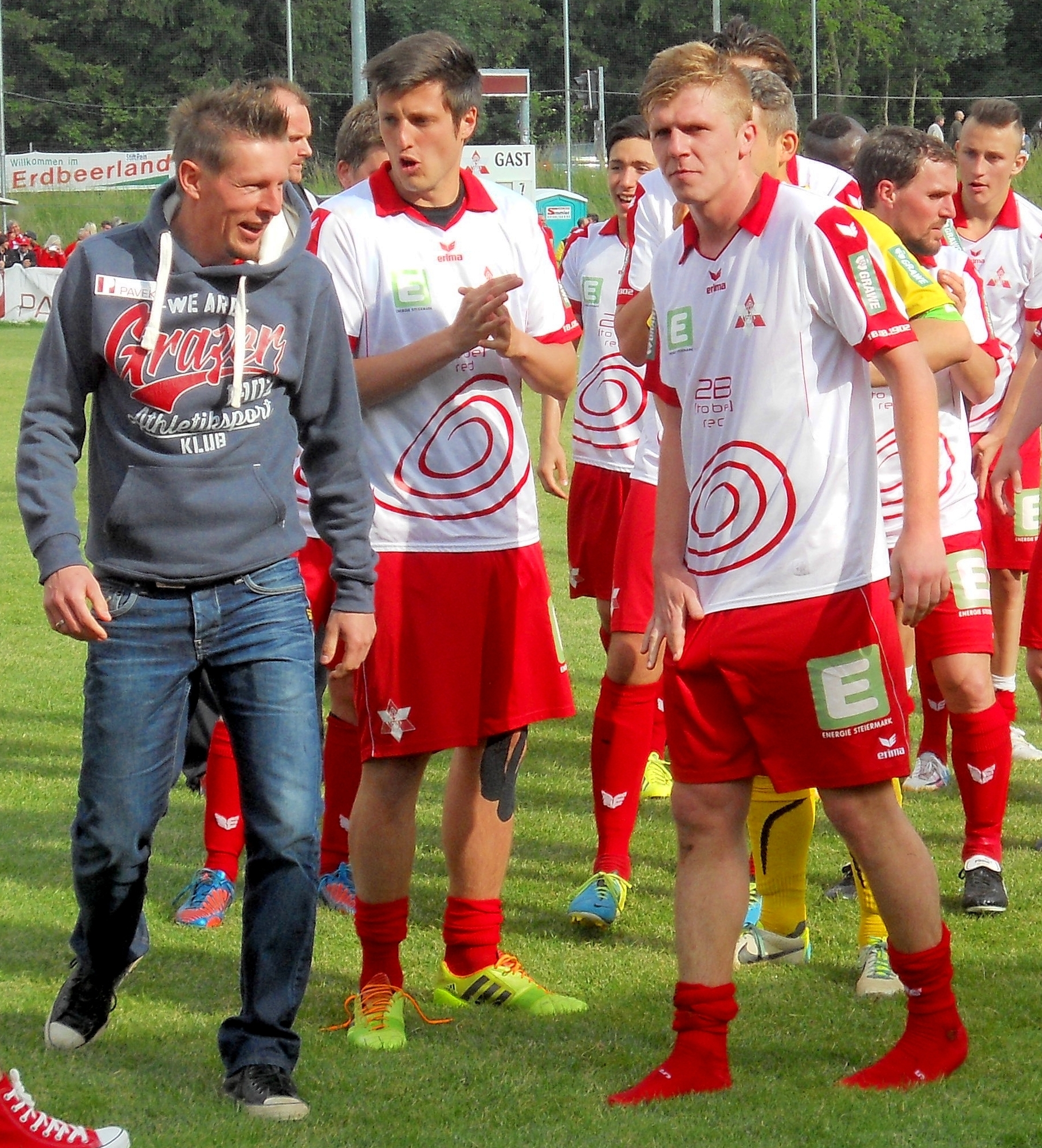 Gernot Plassnegger as manager of GAK with some of his players after the Styrian "1. Klasse Mitte A"-game Grazer AK vs FC Stattegg reserve team on 31 May 2014 at the Sportzentrum Graz-Weinzödl, the last home match of the season with GAK winning the championship